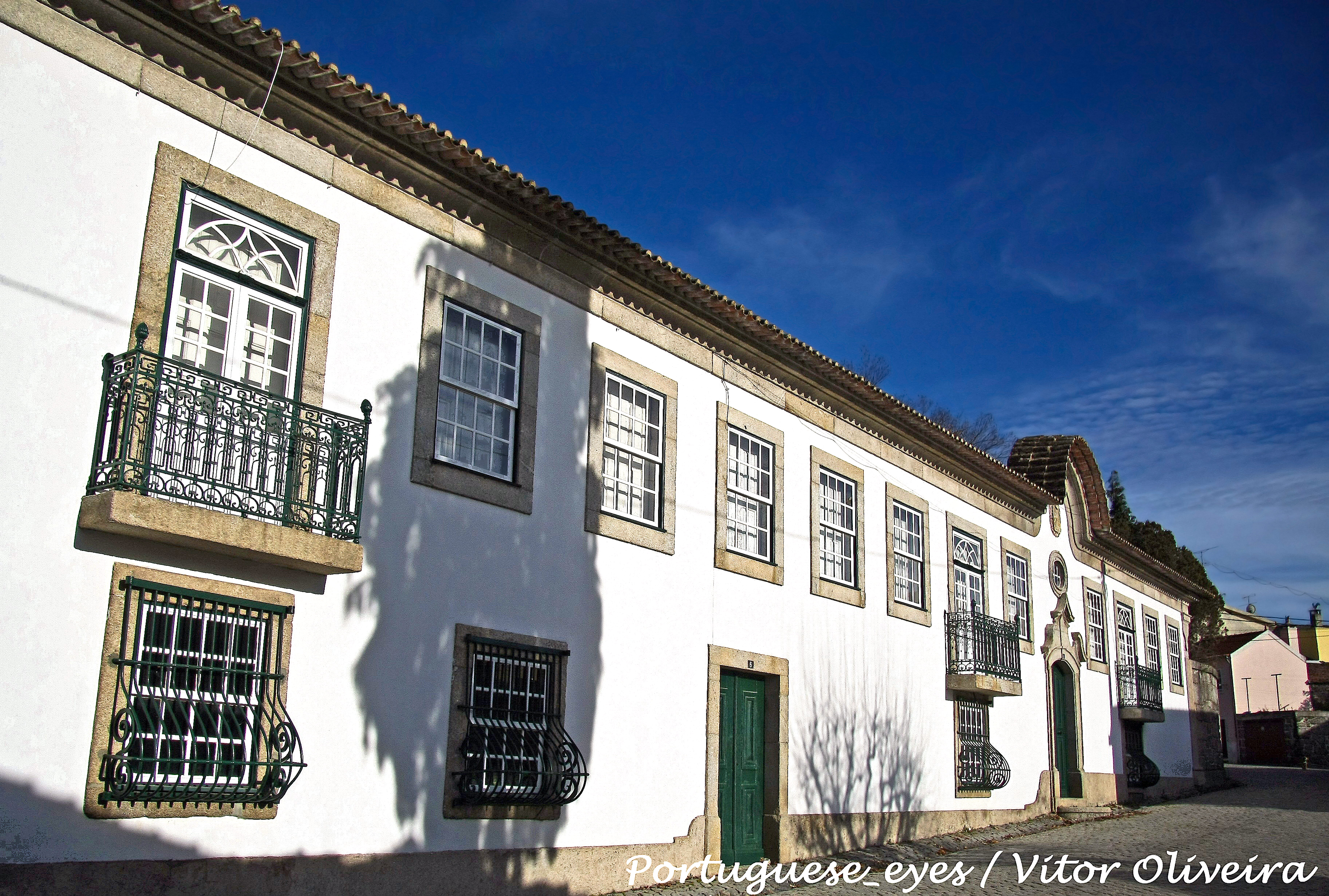 Solar brasonado do século XVIII. See where this picture was taken. [?]